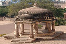 jhansi